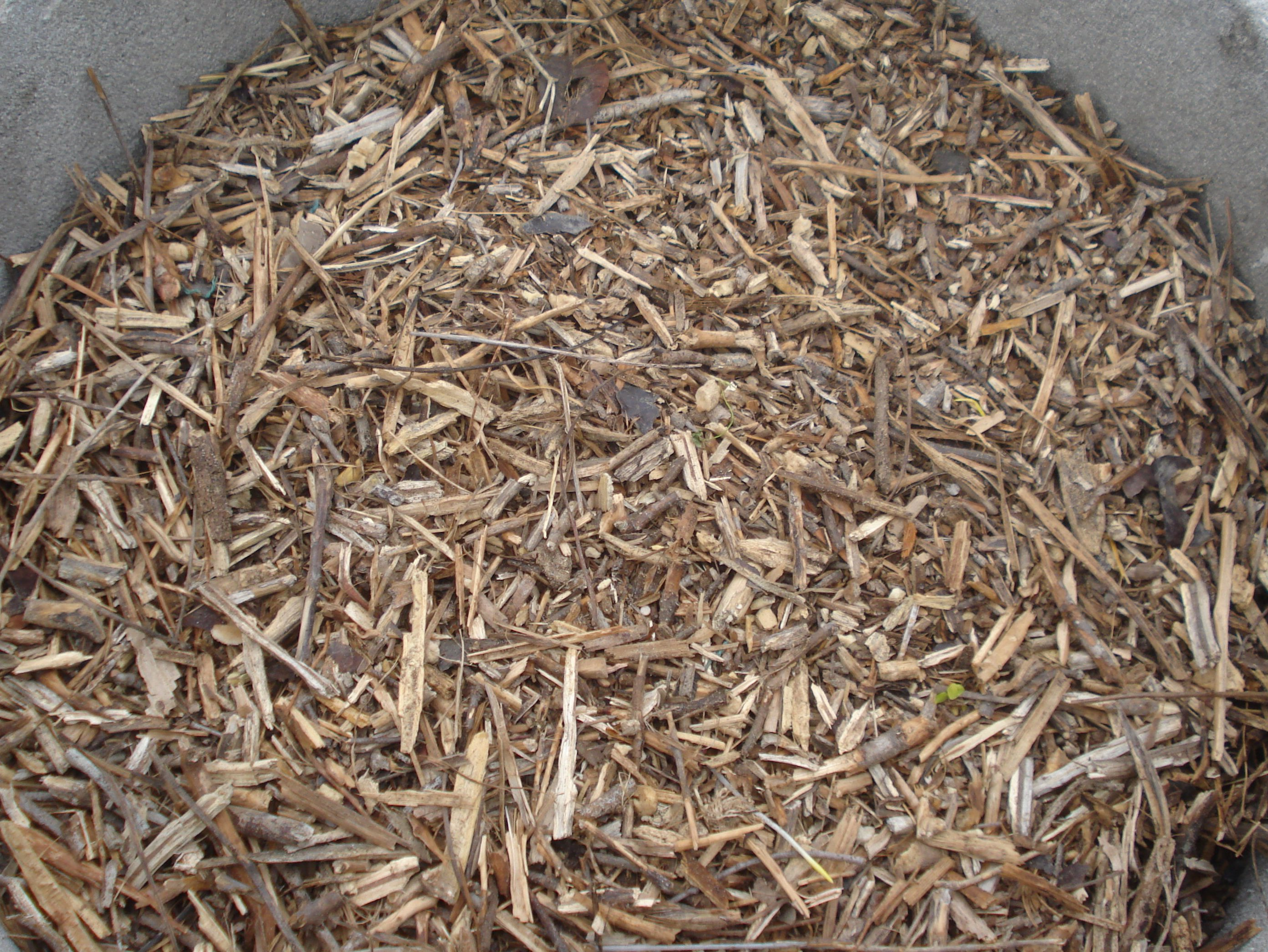 Shredded olive branches used as filter packing.